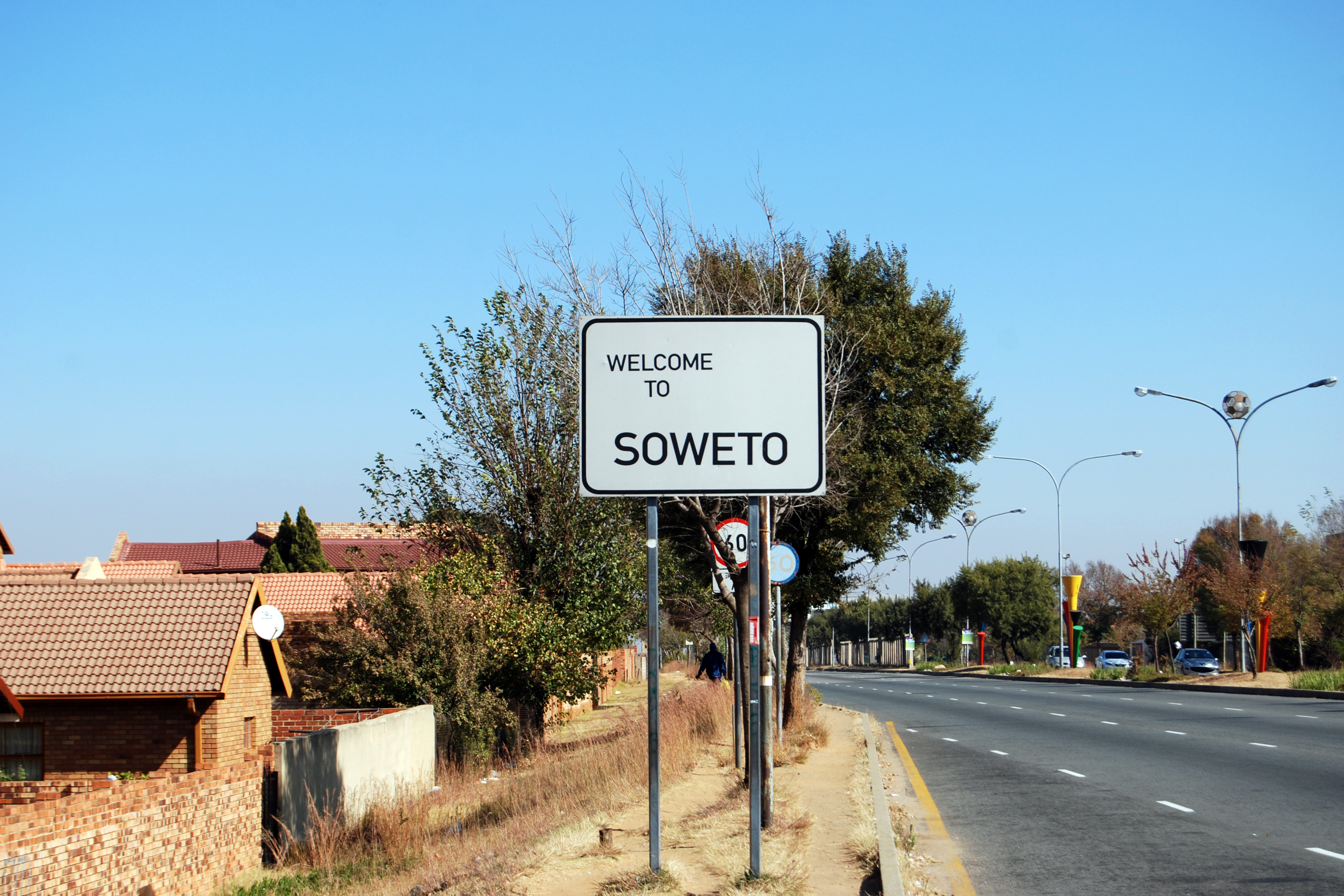 Soweto is an urban area of the city of Johannesburg in Gauteng, South Africa. Formerly a separate municipality, it is now incorporated in the City of Johannesburg Metropolitan Municipality